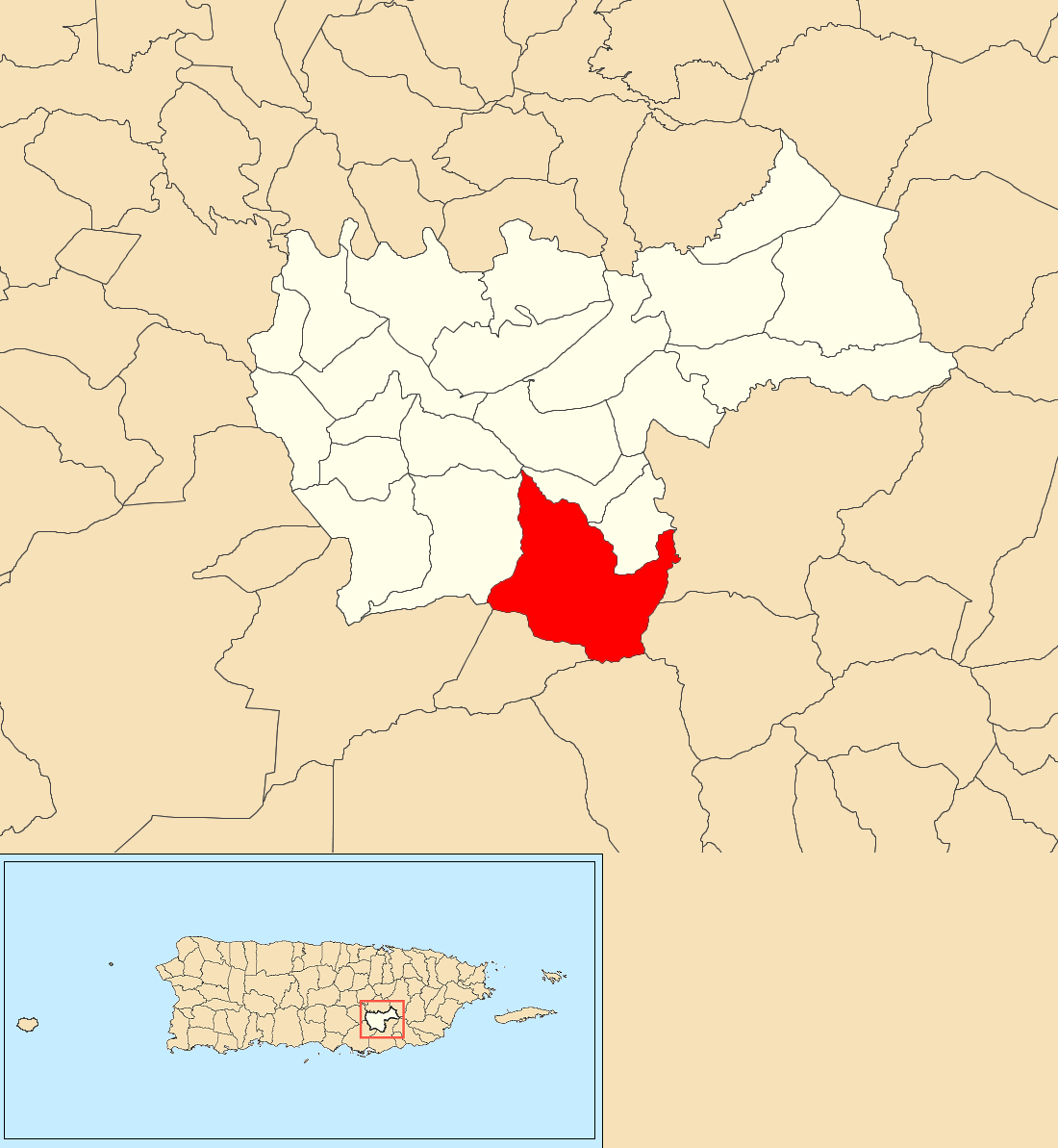 Jájome Alto, Cayey, Puerto Rico locator map